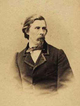 Heinrich August Georg Schiøtt (1823-1895), Danish portrait painter